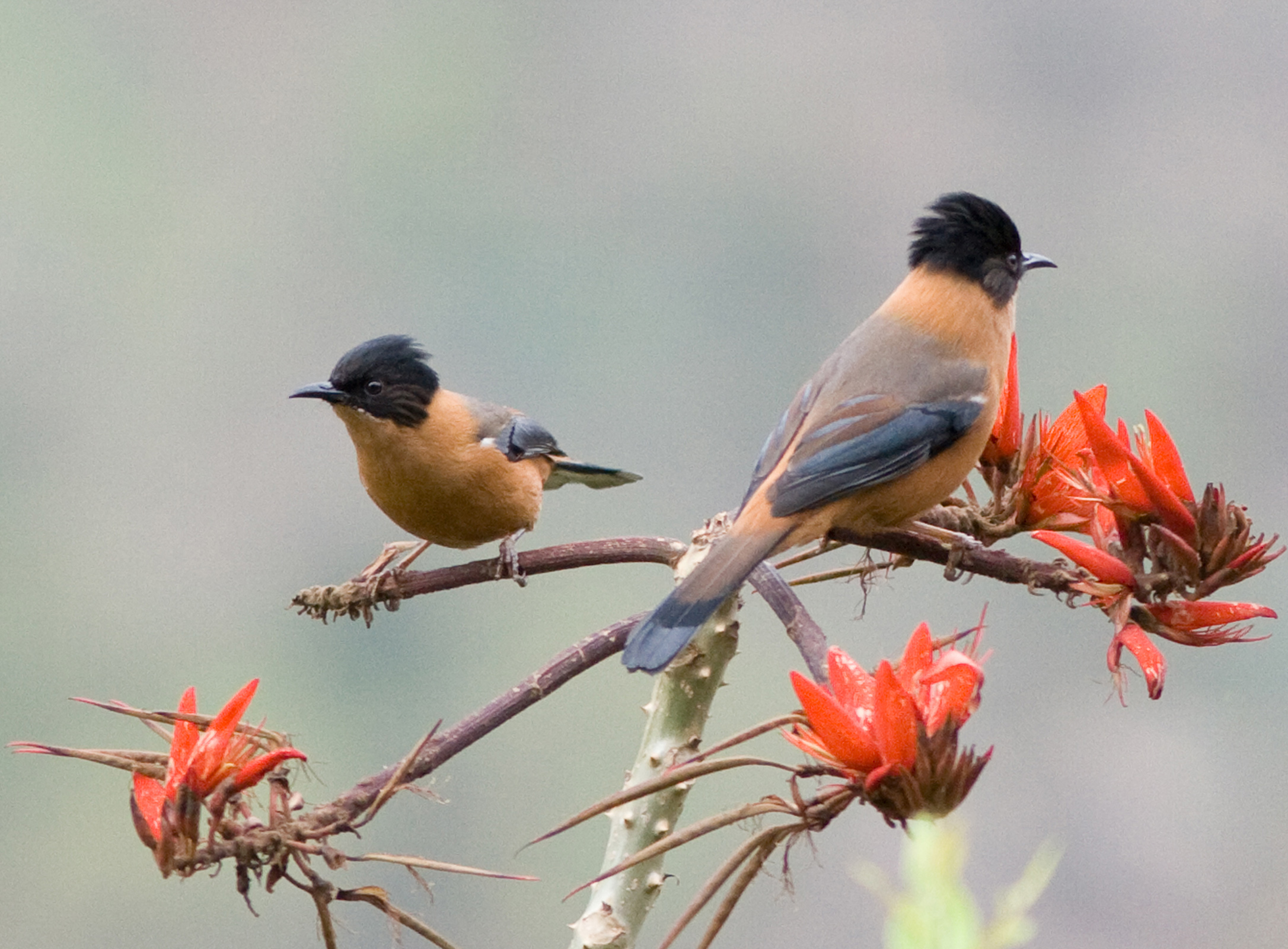 Shot while driving in the hills of Sikkim when we saw it perched on this interesting set up.